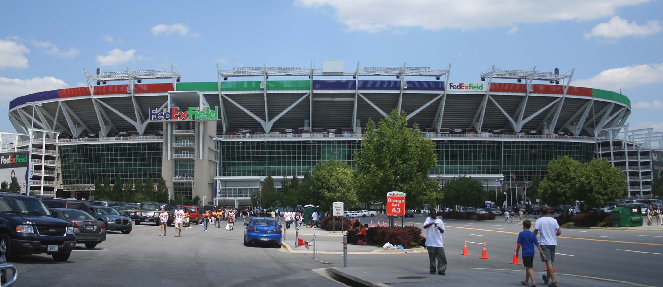 FedExField, home of the Washington Redskins.